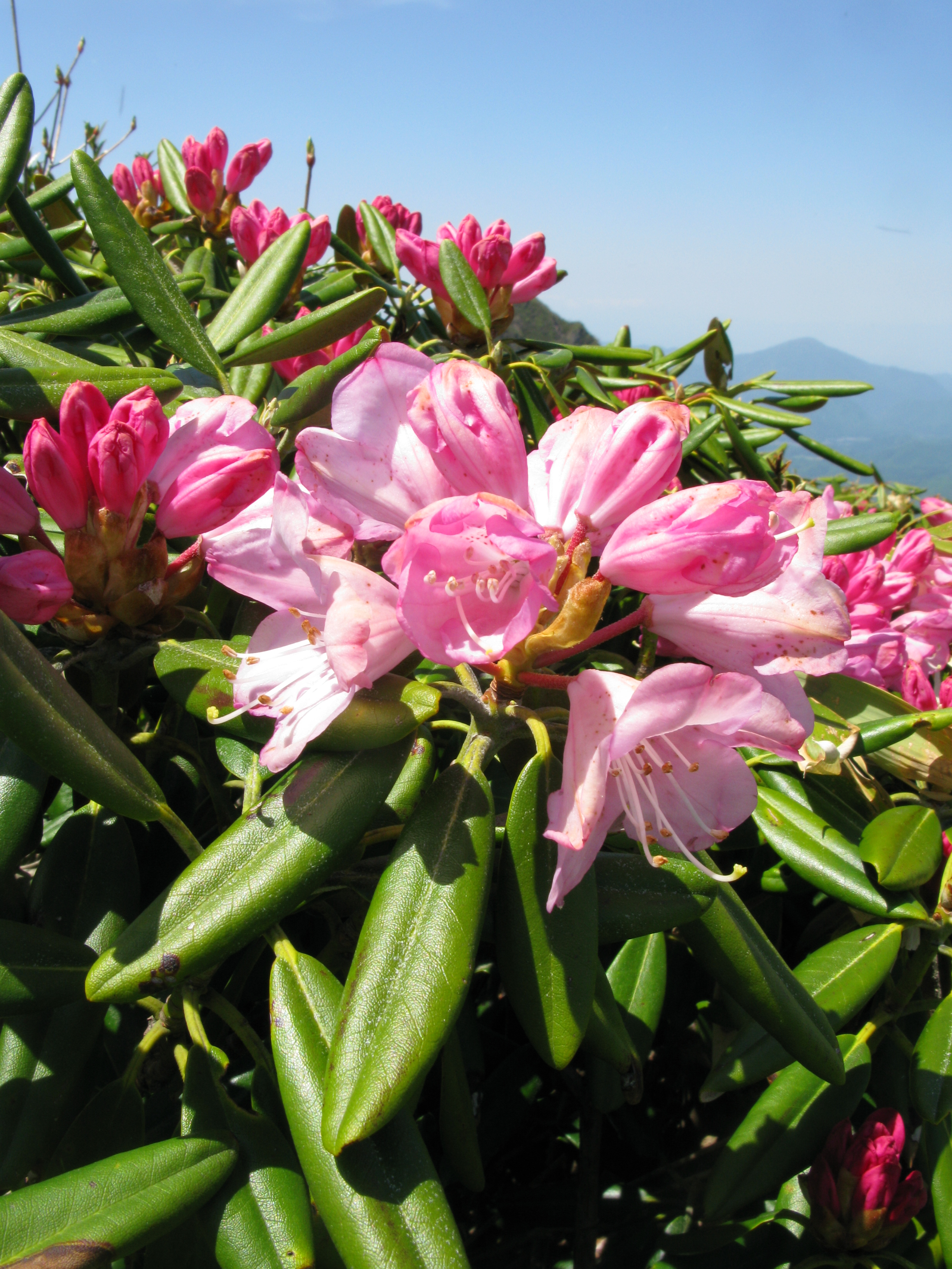 Rhododendron degronianum,Aizu area,Fukushima pref.,Japan